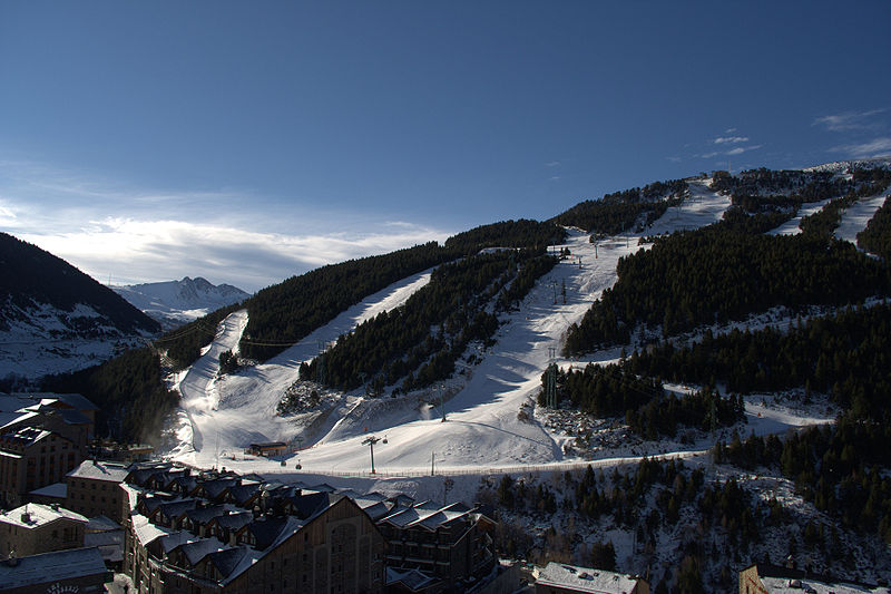 The Soldeu-El Tarter sector of the Grandvalira ski resort in Andorra